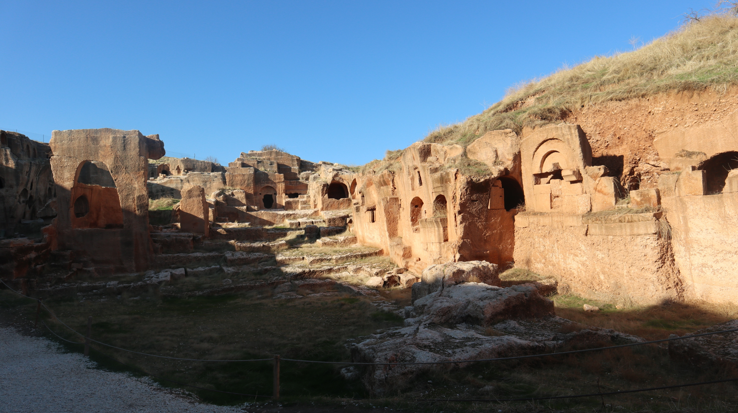 Dara ancient city necropol